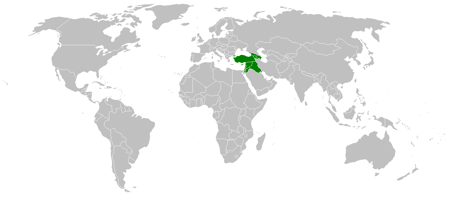 Map of the Near East.